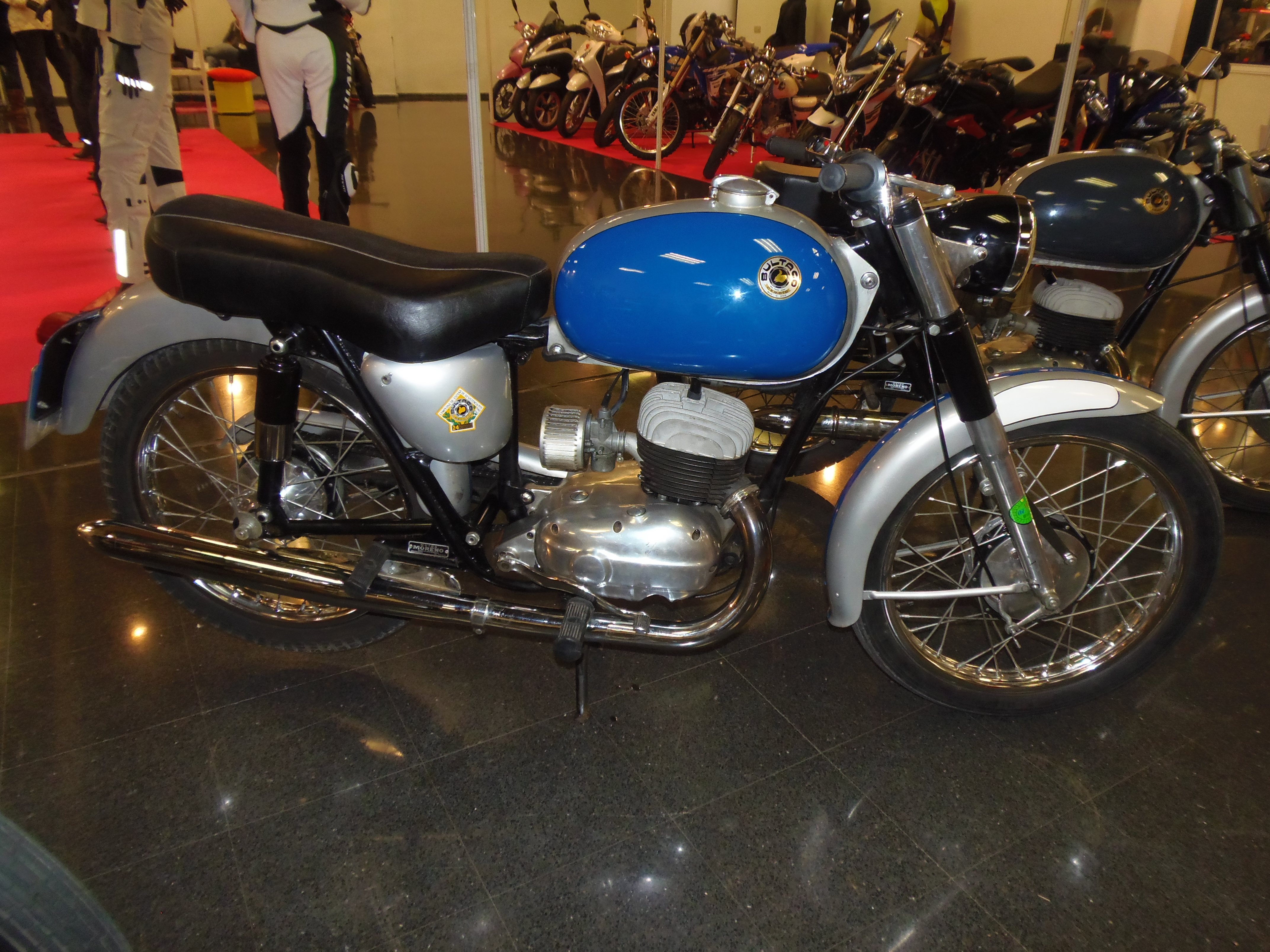 Bultaco Mercurio 125 circa 1960